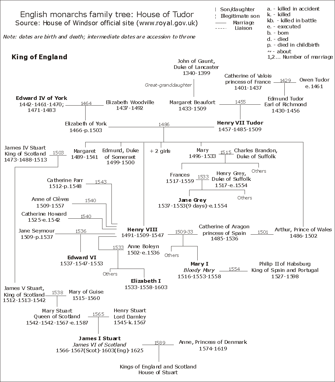 Kings of England family tree: Tudor, Stuart and Hanover